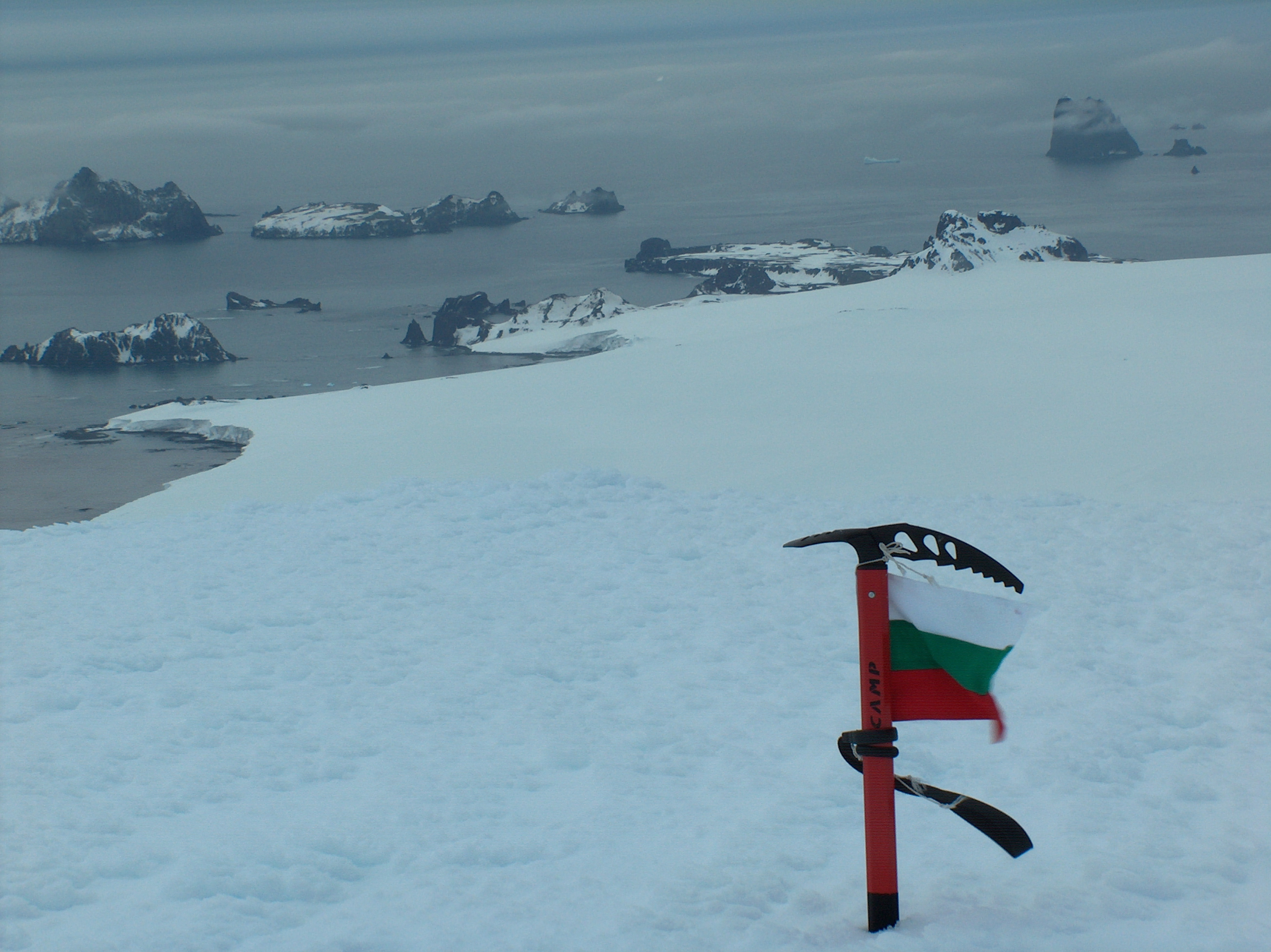 Williams Point, Livingston Island in the South Shetland Islands; the first land ever discovered south of 60˚ south latitude, on February 19, 1819. Left to right Slab Point, Organpipe Point, and Williams Point surmounted by Sayer Nunatak, from Miziya Peak, with Zavala Island in the foreground, Zed Islands in the left background, and Pyramid Island on the right Viewpoint location: Miziya Peak in Vidin Heights on Livingston Island, in the South Shetland Islands Viewpoint elevation: 604 meters Camera: HP PhotoSmart C945 (V01.54)